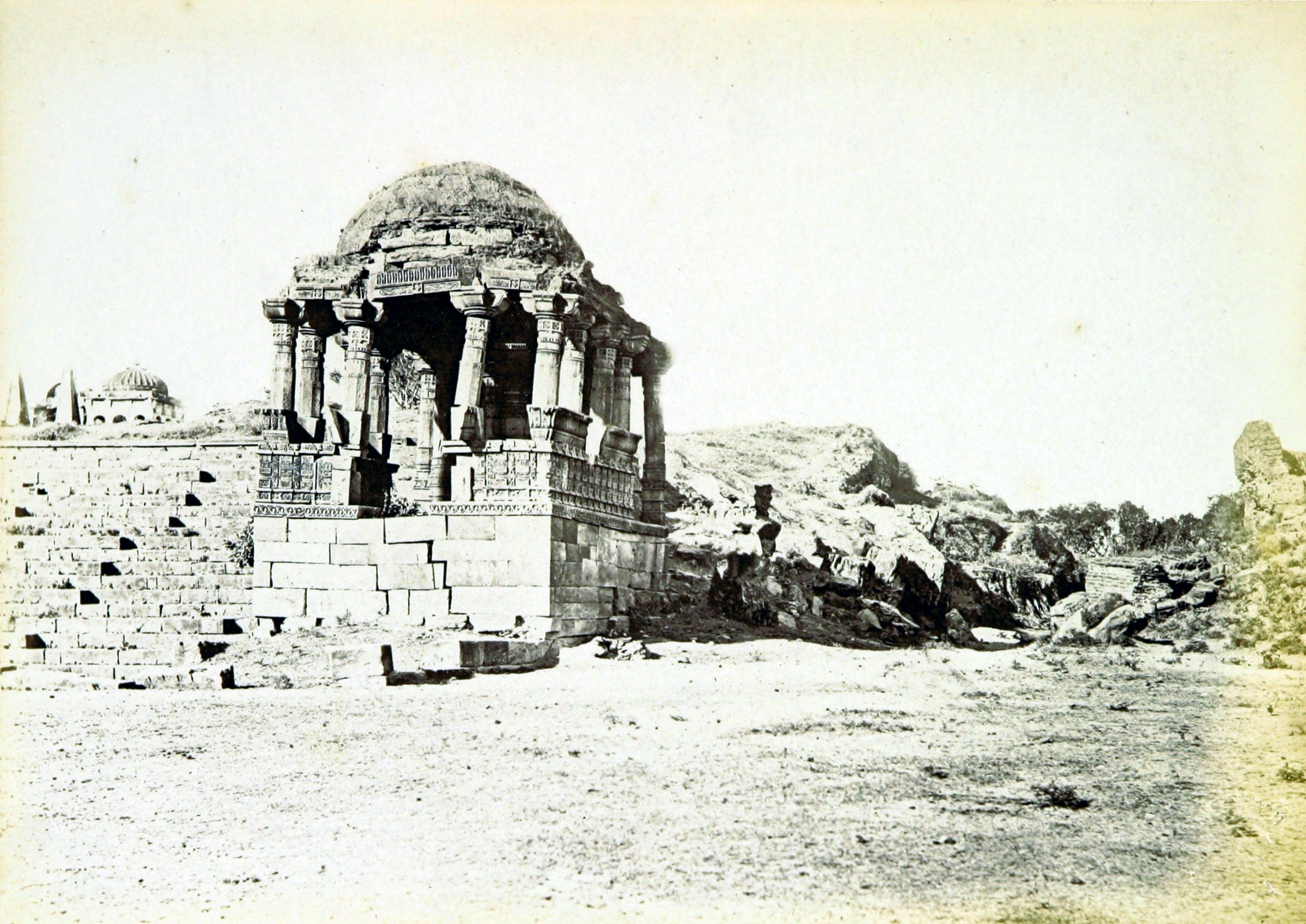 Image taken from: Title: "Architecture at Ahmedabad, the Capital of Goozerat, photographed by Colonel Biggs, ... With an historical and descriptive sketch, by T. C. H., ... and architectural notes by J. Fergusson, etc" Author: HOPE, Theodore Cracraft - Sir, K.C.S.I Contributor: BIGGS, Thomas. Contributor: FERGUSSON, James - Architect Shelfmark: "British Library HMNTS 10057.f.17.", "British Library OC V 6665" Page: 235 Place of Publishing: London Date of Publishing: 1866 Issuance: monographic Identifier: 001730119 Note: The colours, contrast and appearance of these illustrations are unlikely to be true to life. They are derived from scanned images that have been enhanced for machine interpretation and have been altered from their originals. If you wish to purchase a high quality copy of the page that this image is drawn from, please order it here. Please note that you will need to enter details from the above list - such as the shelfmark, the page, the book's volume and so on - when filling out your order. Following this or the link above will take you to the British Library's integrated catalogue. You will be able to download a PDF of the book this image is taken from, as well as view the pages up close with the 'itemViewer'. Click on the 'related items' to search for the electronic version of this work. Click here to see all the illustrations in this book and click here to browse other illustrations published in books in the same year. Please click on the tags shown on the right-hand side for other ways to browse the illustrations.